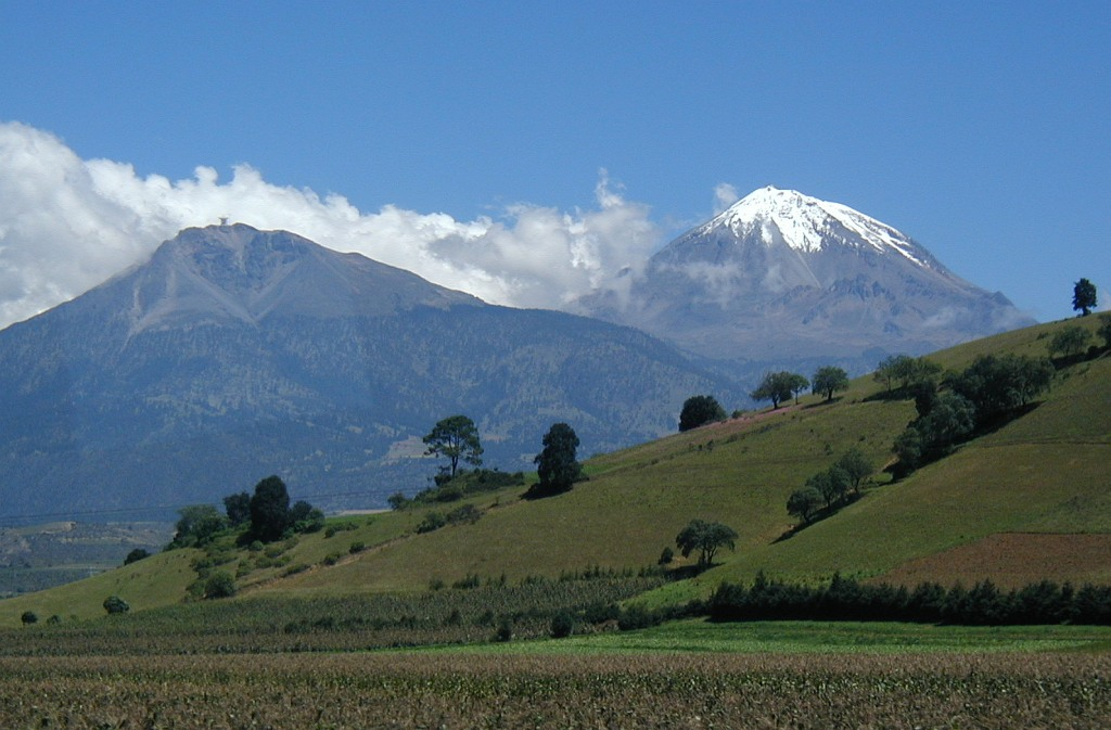 Picture of the Sierra Negro, Mexico, with the Pico de Orizaba